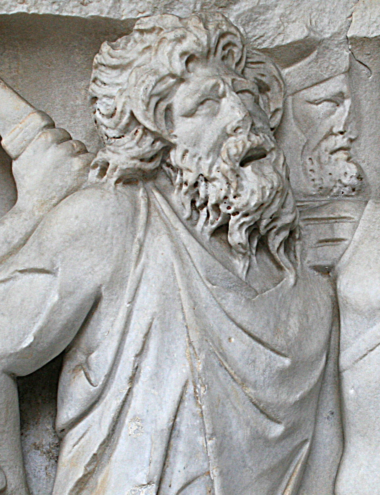 Detail of the front panel of the roman sarcophagus adorned with a relief representing the submission of the Sarmatians . - Cortile Ottagono, Museo Pio-Clementino of the Vatican Museums.